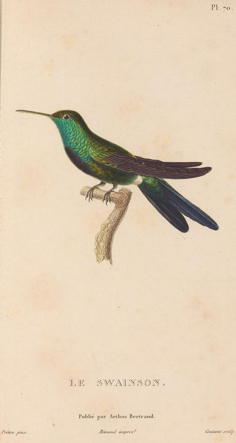 Chlorostilbon swainsonii